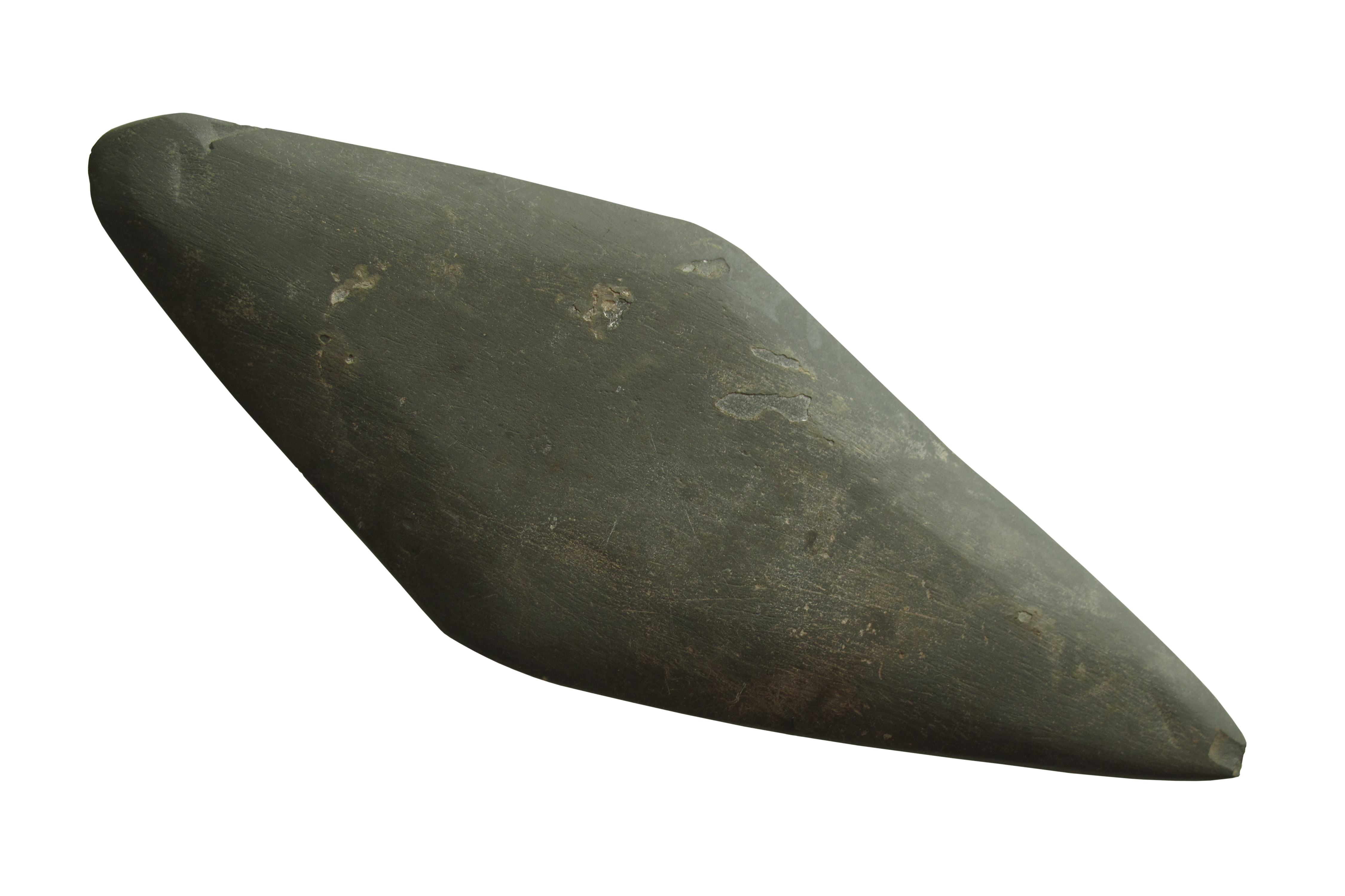 Rouge palette. Predynastic, shale, Naqada I